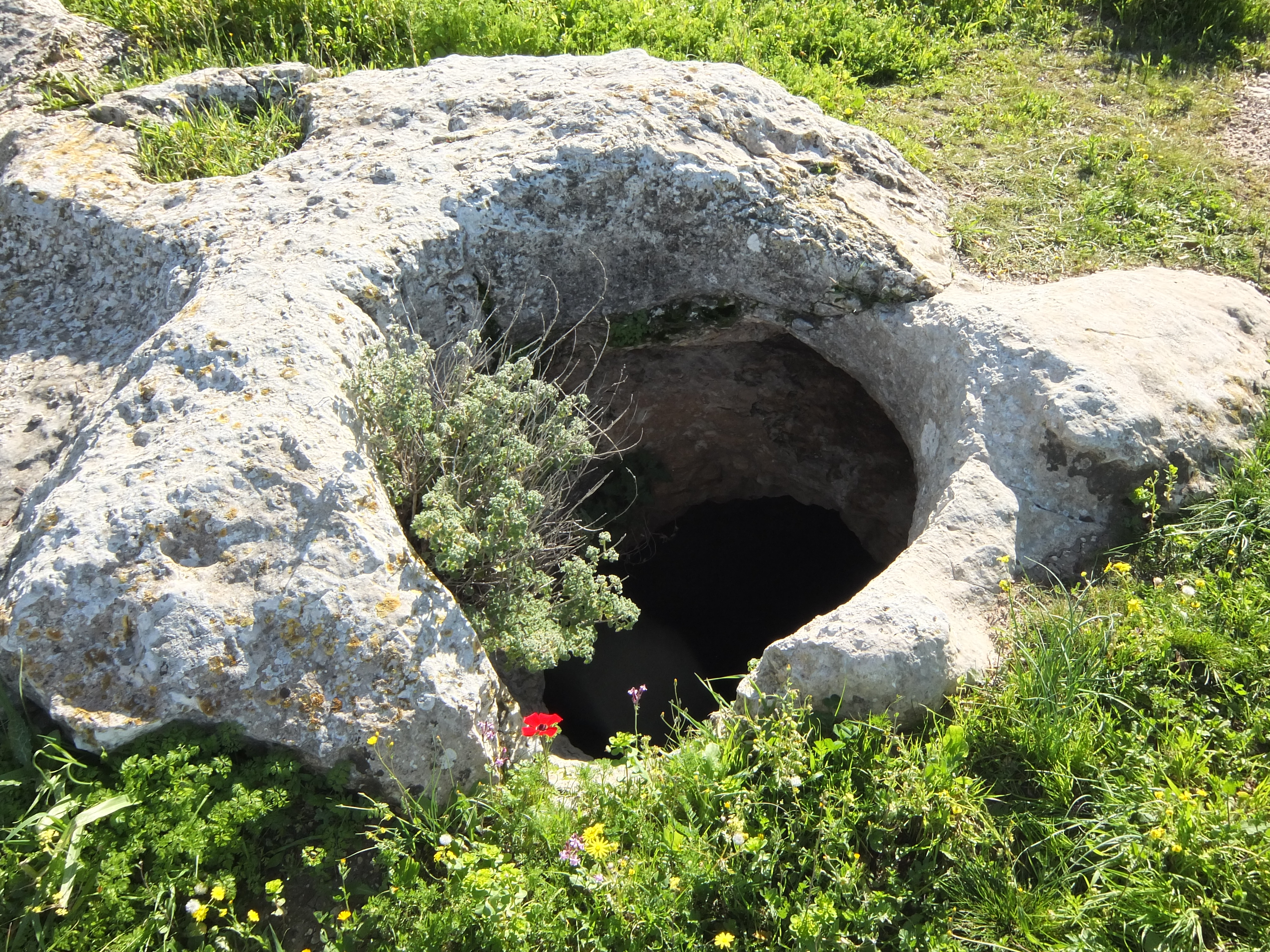 A cistern at Khirbet Shuweikah, or what is also known in Hebrew as the ancient ruin of Socho, near the Elah valley